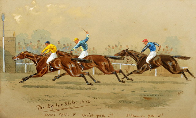 Illustration of the 1892 running of the Eclipse Stakes